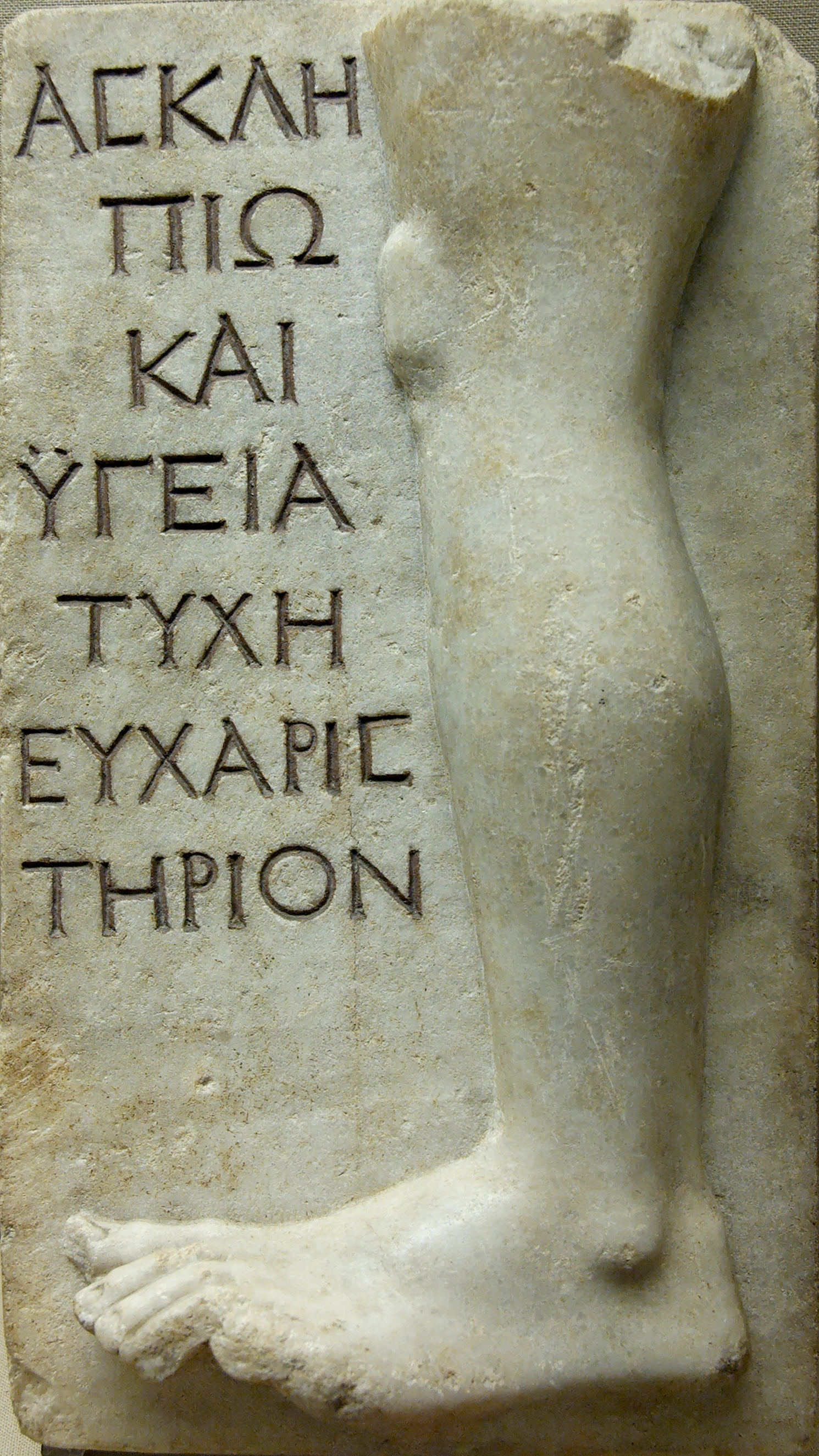 Votive relief for the cure of a bad leg, with an inscription dedicating it to Asclepius and Hygeia. Found in 1828 in the same sanctuary in Milos, Ægean Sea, as the head BM Sculpture 550.